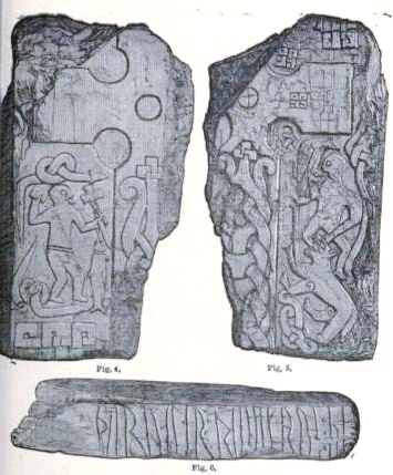 image